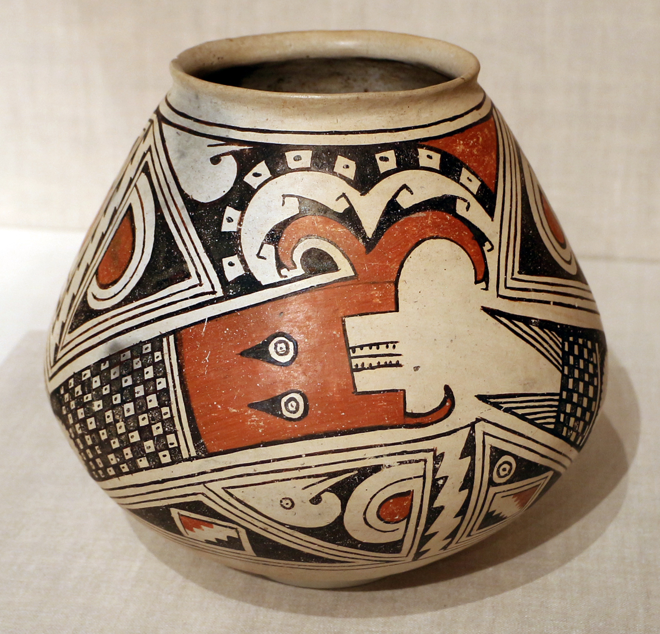 Pre-Columbian art in the Art Institute of Chicago